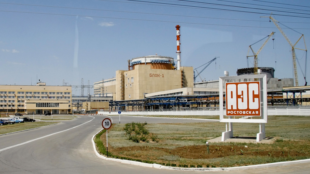 “The Volgodonsk NPP”. The Volgodonsk NPP.